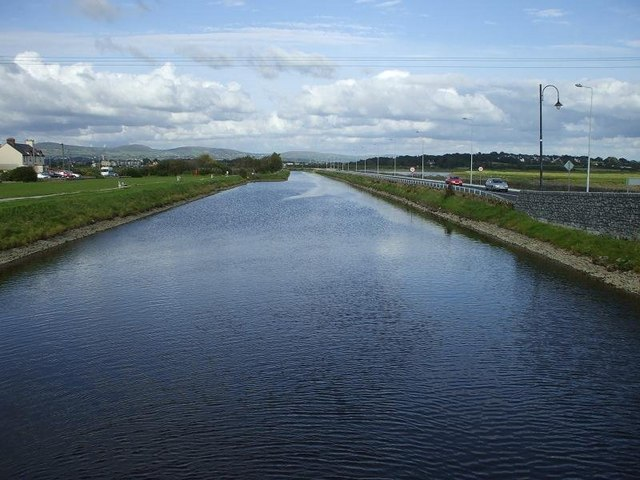 Tralee Ship Canal, Blennerville Taken from the swing bridge, looking towards Tralee. The canal was opened in 1846 after 14 years construction.